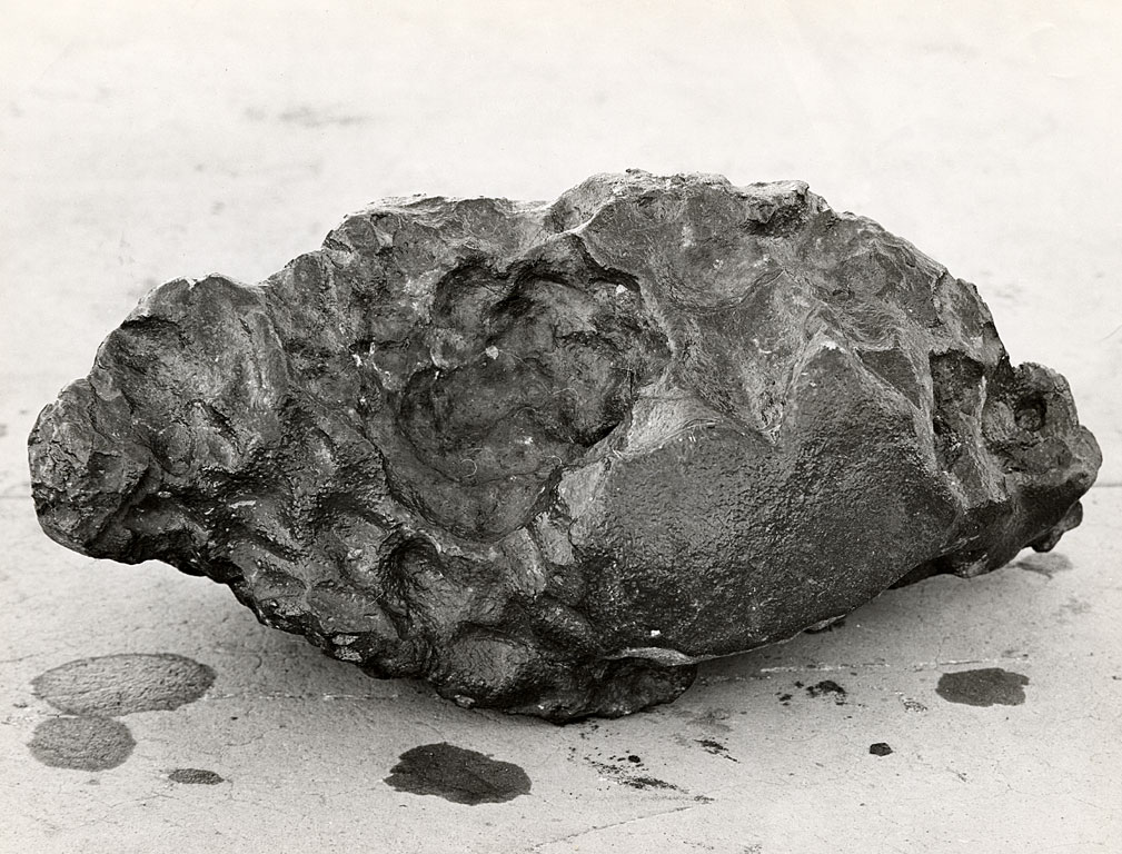 Photograph of the Loreto, Baja California Sur, Mexico, meteorite brought back by Harvey Harlow Nininger (1887-1986). Through Stuart H. Perry (1874-1957), a newspaper publisher and authority on meteorites, who made extensive collections of meteorites, the Loreto meteorite and many other specimens were donated to the United States National Museum (USNM). The Loreto meteorite, a find of 1896, was originally approximately 95 kg. The main mass of 90 kg is now in Smithsonian Institution's collection. Modest amounts were distributed to other major collections.